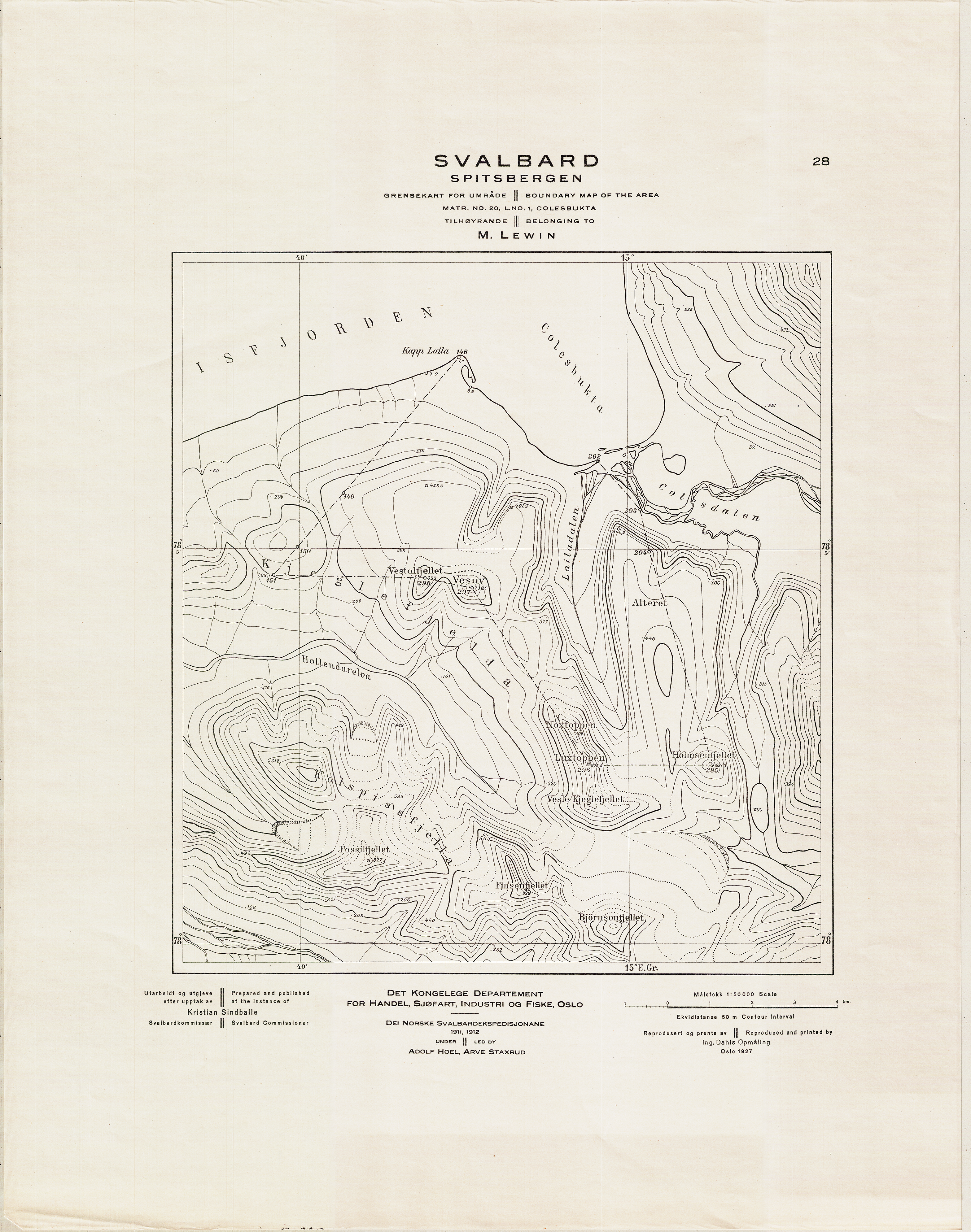 Kart over Colesbukta, fra 1927. Oppmålt under Dei Norske Svalbardekspedisjonane i 1911 og 1912 ledet av Adolf Hoel og Arve Staxrud. Trykket og utgitt i målestokk 1:50 000 av Ing. Dahls Opmåling i 1927 på oppdrag fra Statens kartverk Sjø. Original dokumentstørrelse ca 31 cm x 34 cm. Et eksemplar befinner seg hos Statens kartverk Sjø i Stavanger.